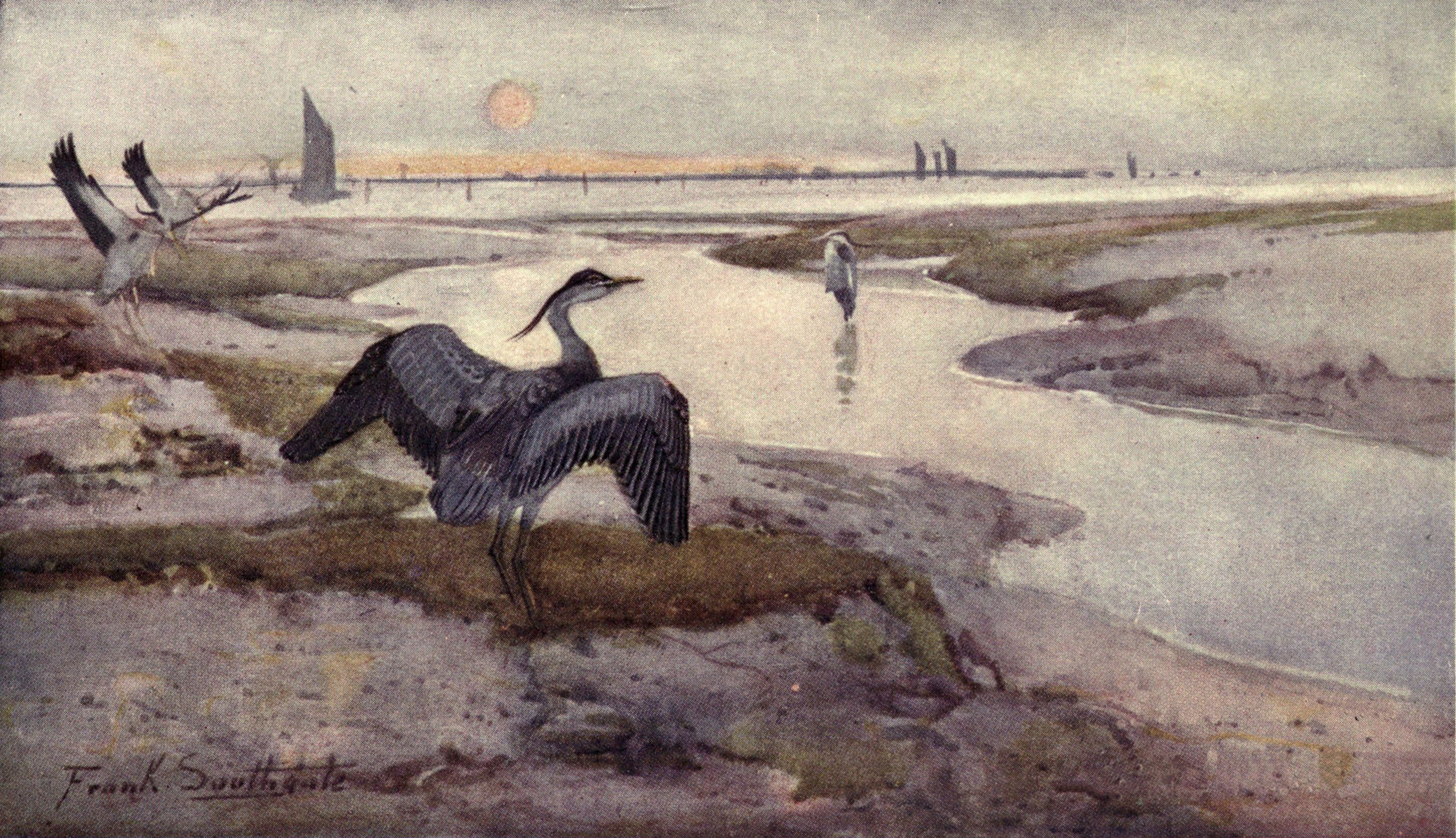 Illustration opposite page 114 in Notes of an East Coast Naturalist: a series of observations made at odd times during a period of twenty-five years in the neighborhood of Great Yarmouth, written by Arthur Henry Patterson (1904); image by Frank Southgate has caption 'Evening on Breydon.'